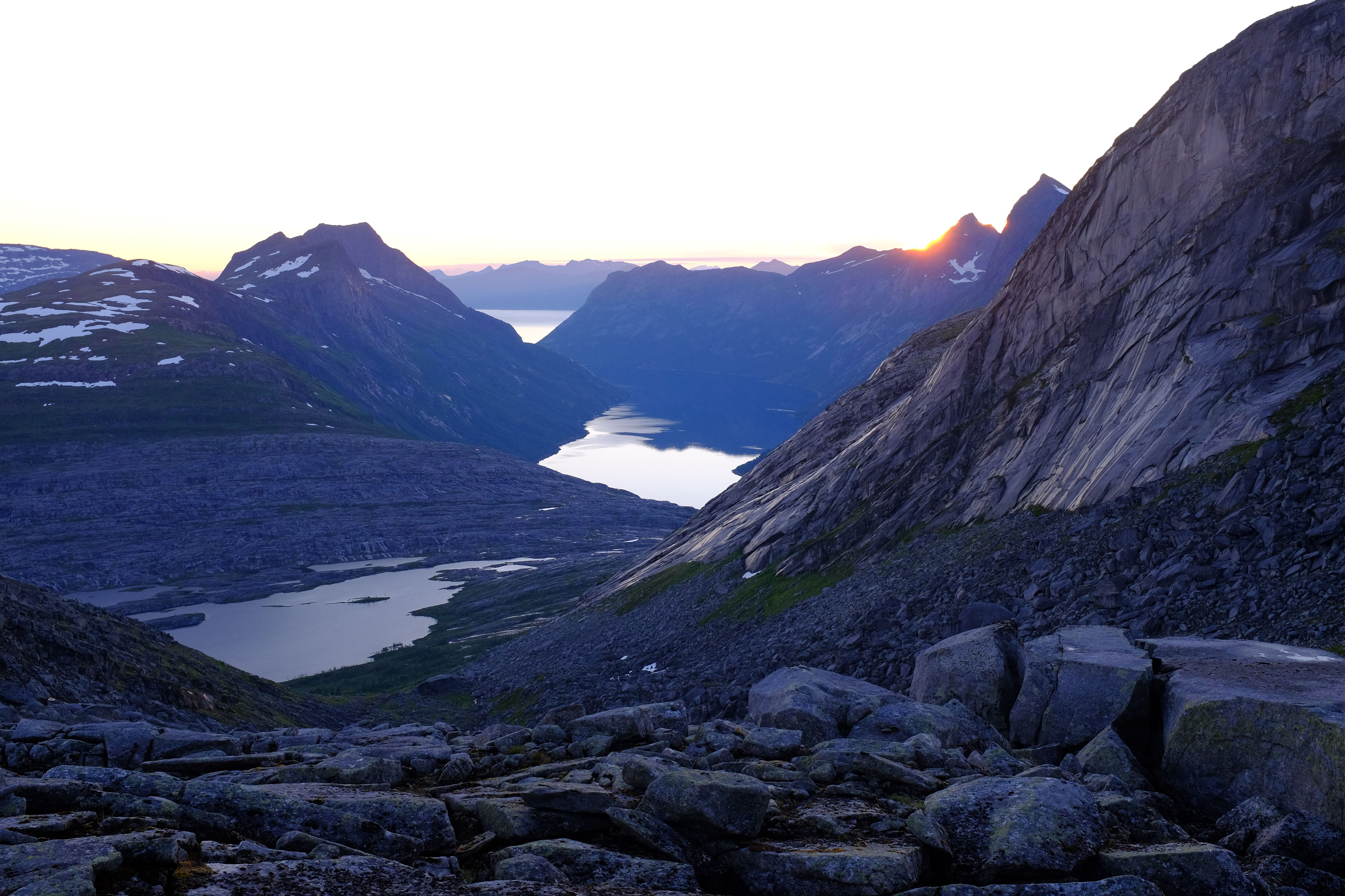 Stavfjorden seen from the pass south of the Kveitsporen peak, Sørfold, Nordland, Norway.